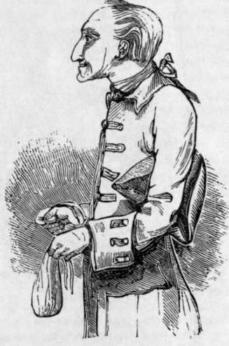 woodcut